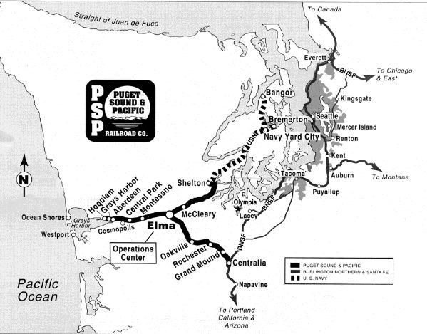 Shows the operations of the Puget Sound and Pacific Railroad including station names and the company logo.